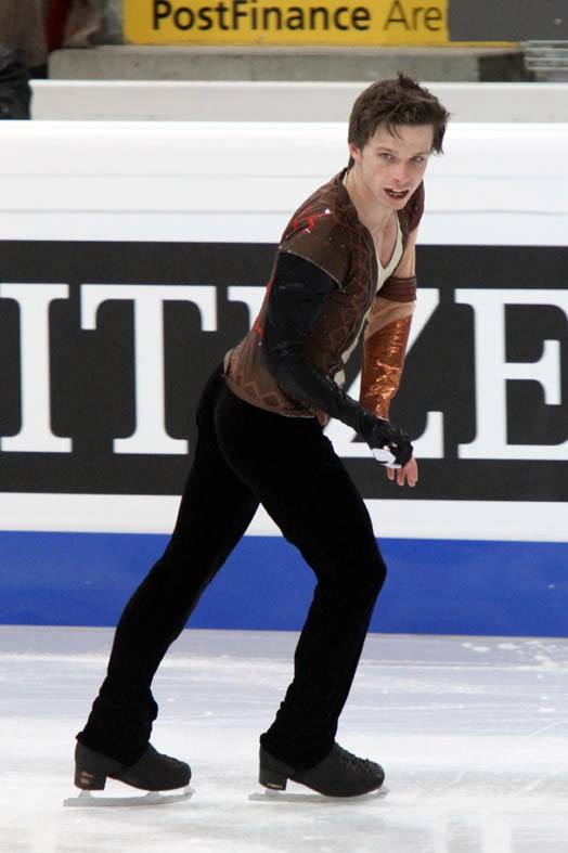 Justus Strid at the 2011 European Figure Skating Championships.